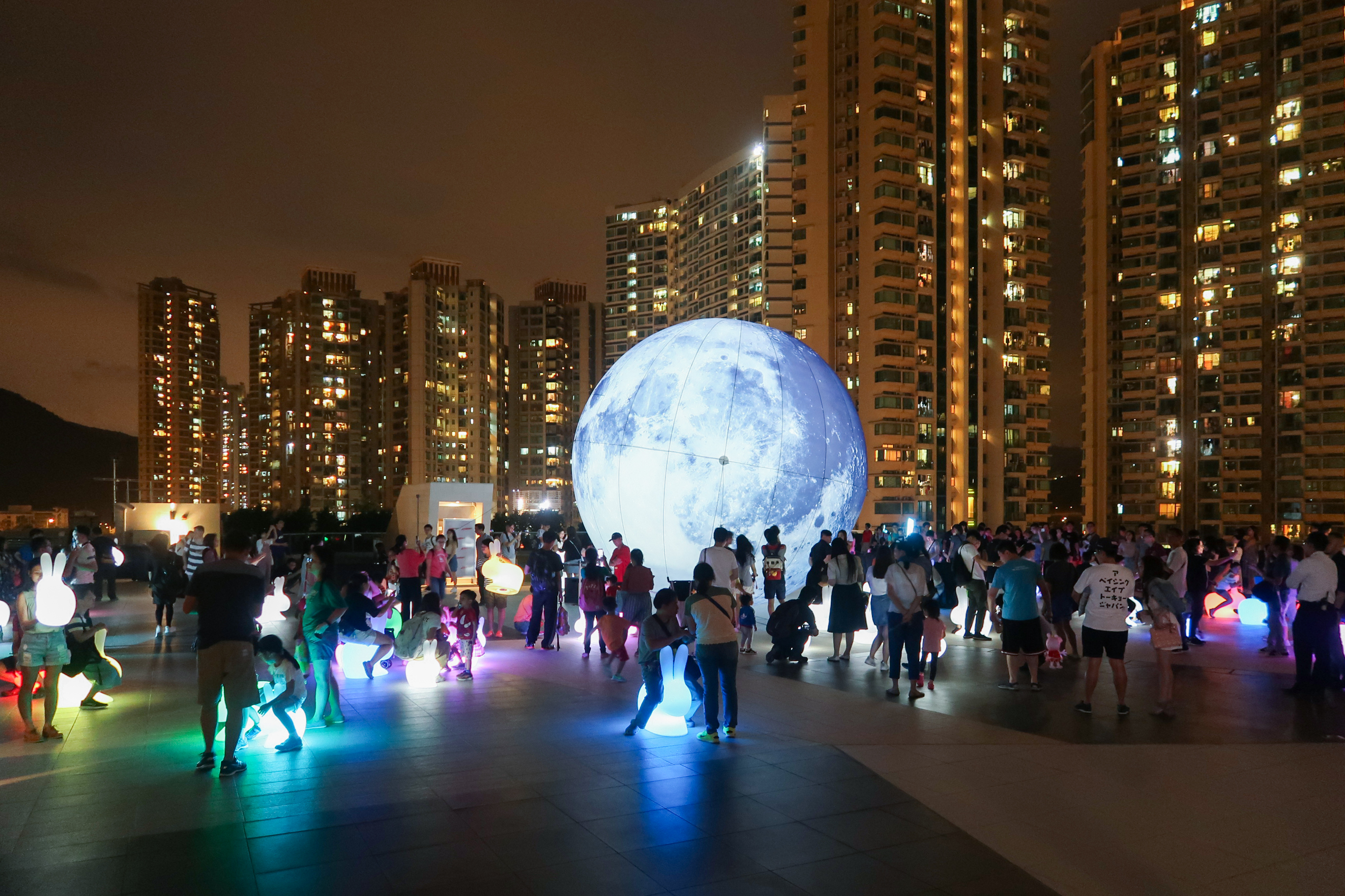 We Go MALL Roof garden